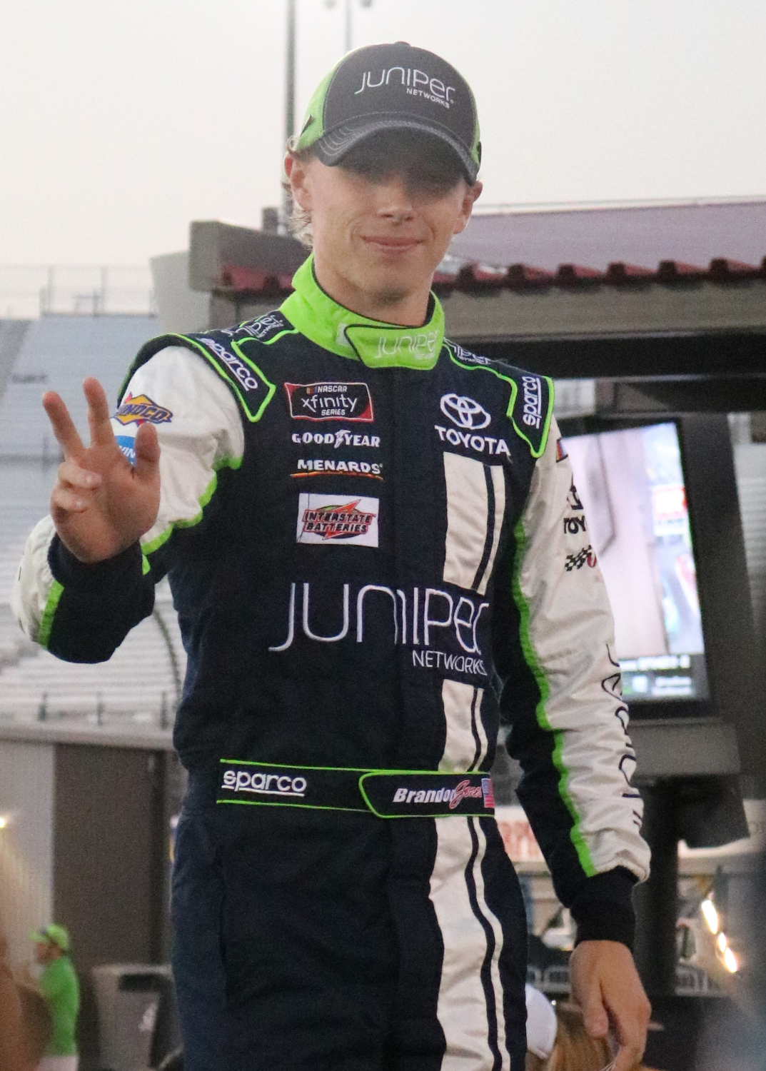 Brandon Jones at Richmond Raceway, 2018.